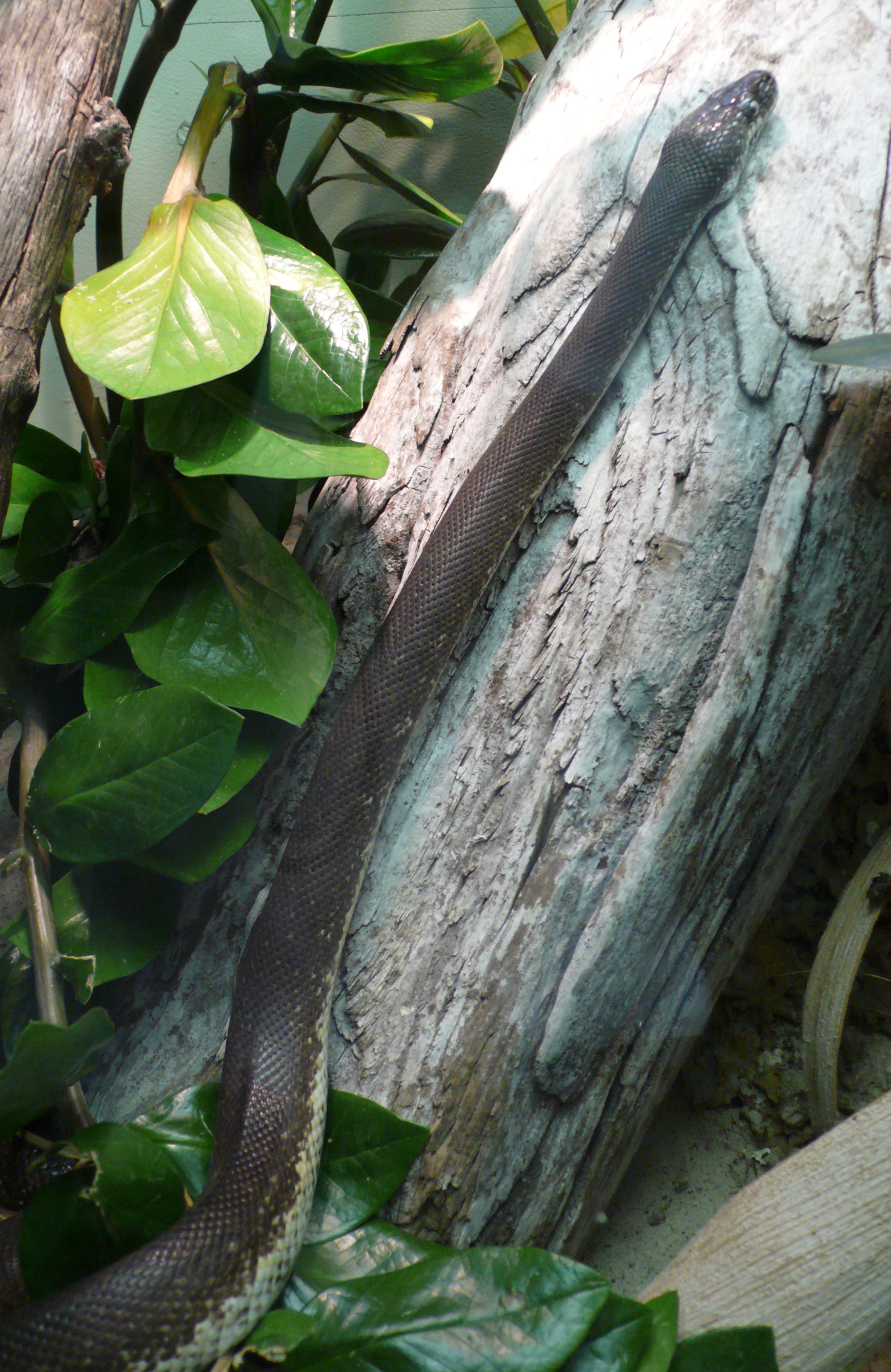 Savu python (Liasis mackloti savuensis)